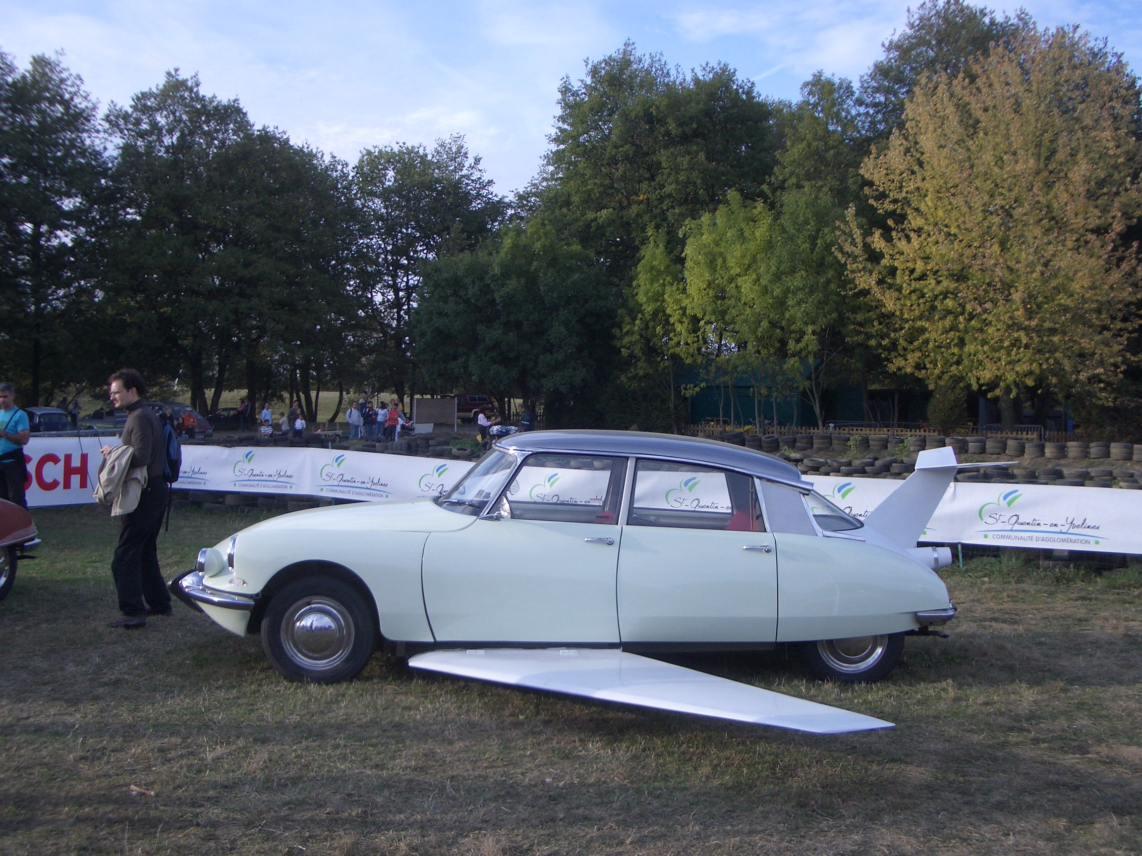 Copy of the flying Citroën DS used by Fantomas to escape in the movie Fantomas se déchaîne.